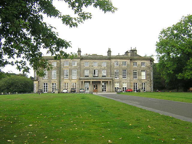 Haigh Hall. Once a pretty impressive country house built by the local Baron's family, this building will be the venue for my younger daughter's wedding in 2006. Haigh, by the way is pronounced "Hay". Hard "g" pronunciations make locals snigger and invite you to pronounce "Mesnes". Remember where you heard it first.